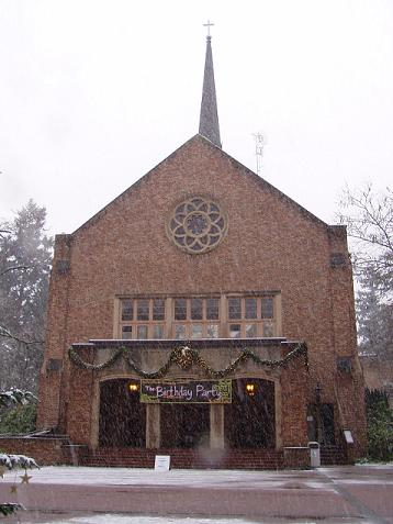 Eastvold Chapel during a winter snowfall at Pacific Lutheran University.